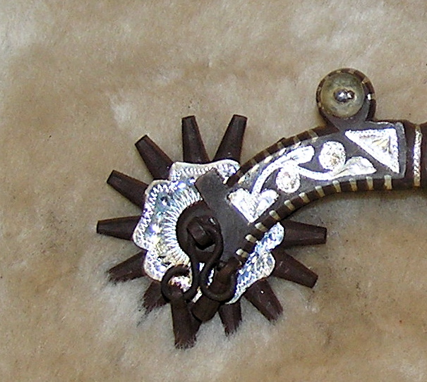 A western spur rowel showing chap guard (raised round bump at right on neck of spur) and "jingo bobs" hanging from center of rowel, which make a jingling sound when in motion. Image taken with staff permission at Three Forks Saddlery, Three Forks, MT